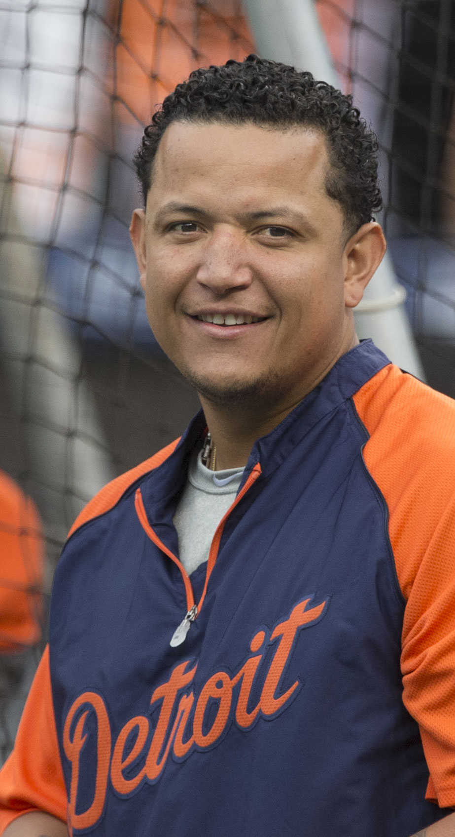 Miguel Cabrera of the Detroit Tigers during batting practice prior to Game One of the American League Division Series at Oriole Park at Camden Yards on October 2, 2014 in Baltimore, Maryland.